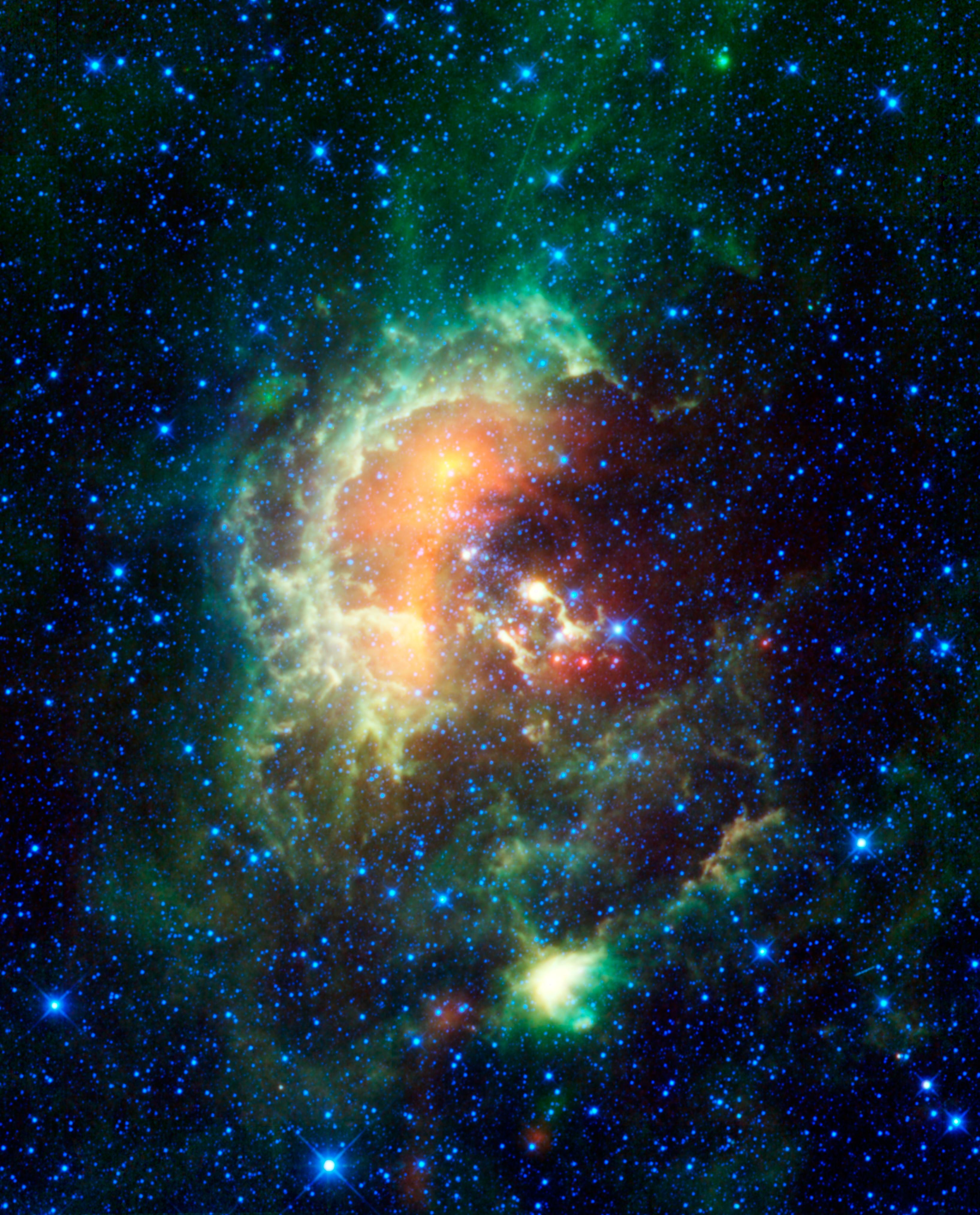 As WISE scanned the sky, capturing this mosaic of stitched-together frames, it happened to catch an asteroid in our Solar System passing by. The asteroid, called 1719 Jens, left tracks across the image, seen as a line of yellow-green dots near centre. A second asteroid, designated 1992 UZ5, was also observed cruising by near the upper left. But that's not all that WISE caught in this busy image -- two satellites orbiting Earth above WISE streak through the image, appearing as faint green trails. The apparent motion of asteroids is slower than satellites because asteroids are much more distant, and thus appear as dots that move from one WISE frame to the next, rather than streaks in a single frame. This Tadpole region is chock-full of stars with ages as young as only a million years -- infants in stellar terms -- and masses over ten times that of our Sun. It is called the Tadpole nebula because the masses of hot young stars are blasting out ultraviolet radiation that has etched the gas into two tadpole-shaped pillars, called Sim 129 and Sim 130. These "tadpoles" appear as the yellow squiggles near the centre of the frame. The knotted regions at their heads are likely to contain new young stars. Twenty-five frames of the region, taken at all four of the wavelengths detected by WISE, were combined into this one image. The space telescope caught the 1719 Jens in 11 successive frames. Infrared light of 3.4 microns is color-coded blue: 4.6-micron light is cyan; 12-micron-light is green; and 22-micron light is red.